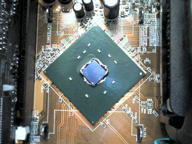 Schipset_Norte_North_Bridge (motherboard ASUS P4P800-E)